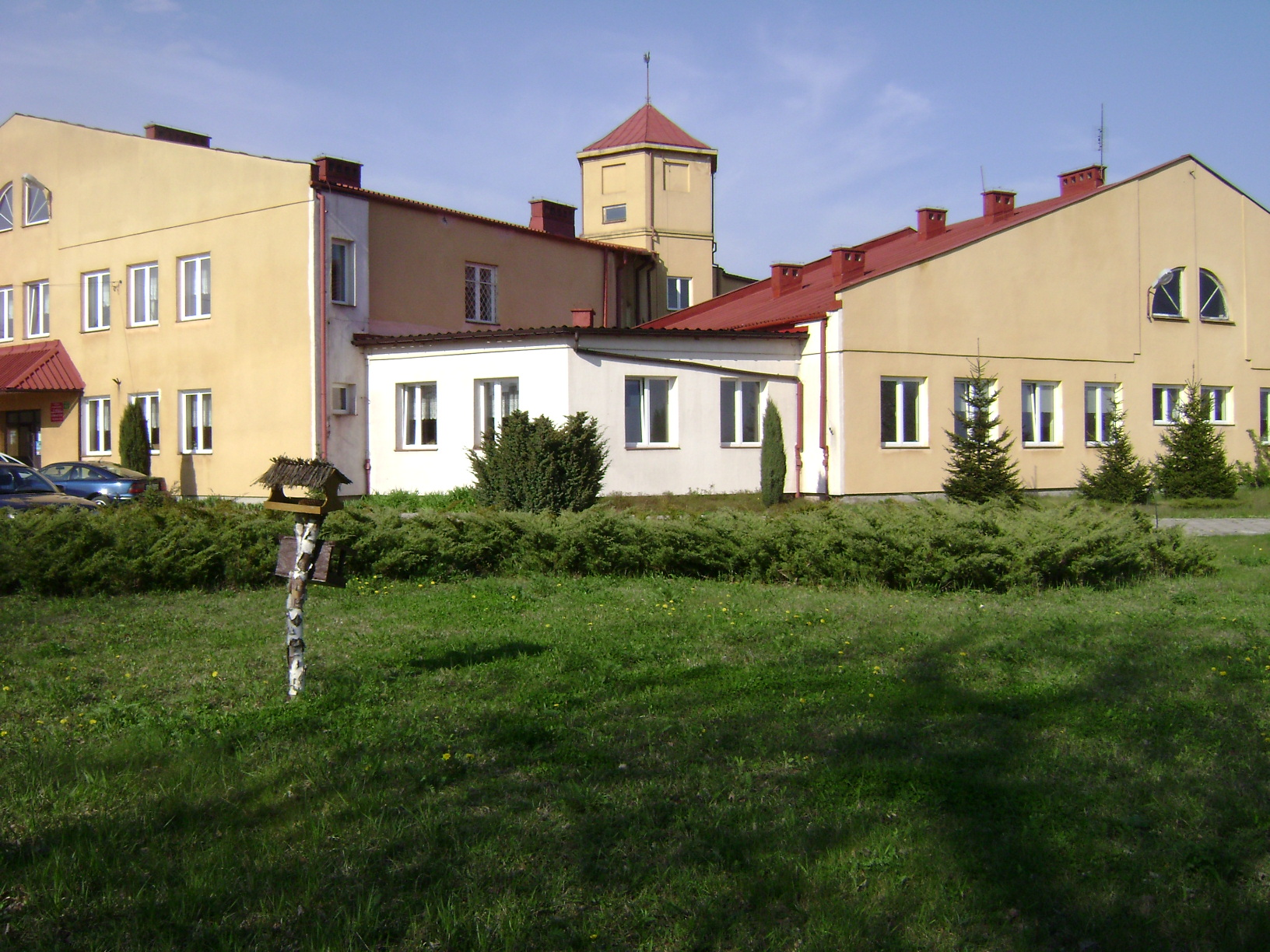 Łbiska